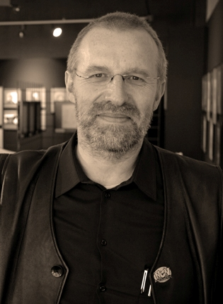 Ben Heine with Jan Op De Beeck at the European Cartoon Center (ECC) in Kruishoutem, which hosted Jan Op De Beeck's Caricature Workshop